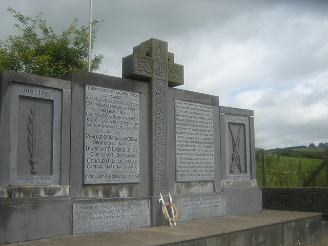 Crossbarry battle monument, near to Cross Barry, Killeady Cross Roads, Barna Cross Roads, Upton and Fort William, Cork, Ireland. The monument marks the site of an ambush carried out by the IRA on a British column in 1921, during the war for independence. See also See also W5561 : Crossbarry battle monument and W5561 : Crossbarry battle monument .